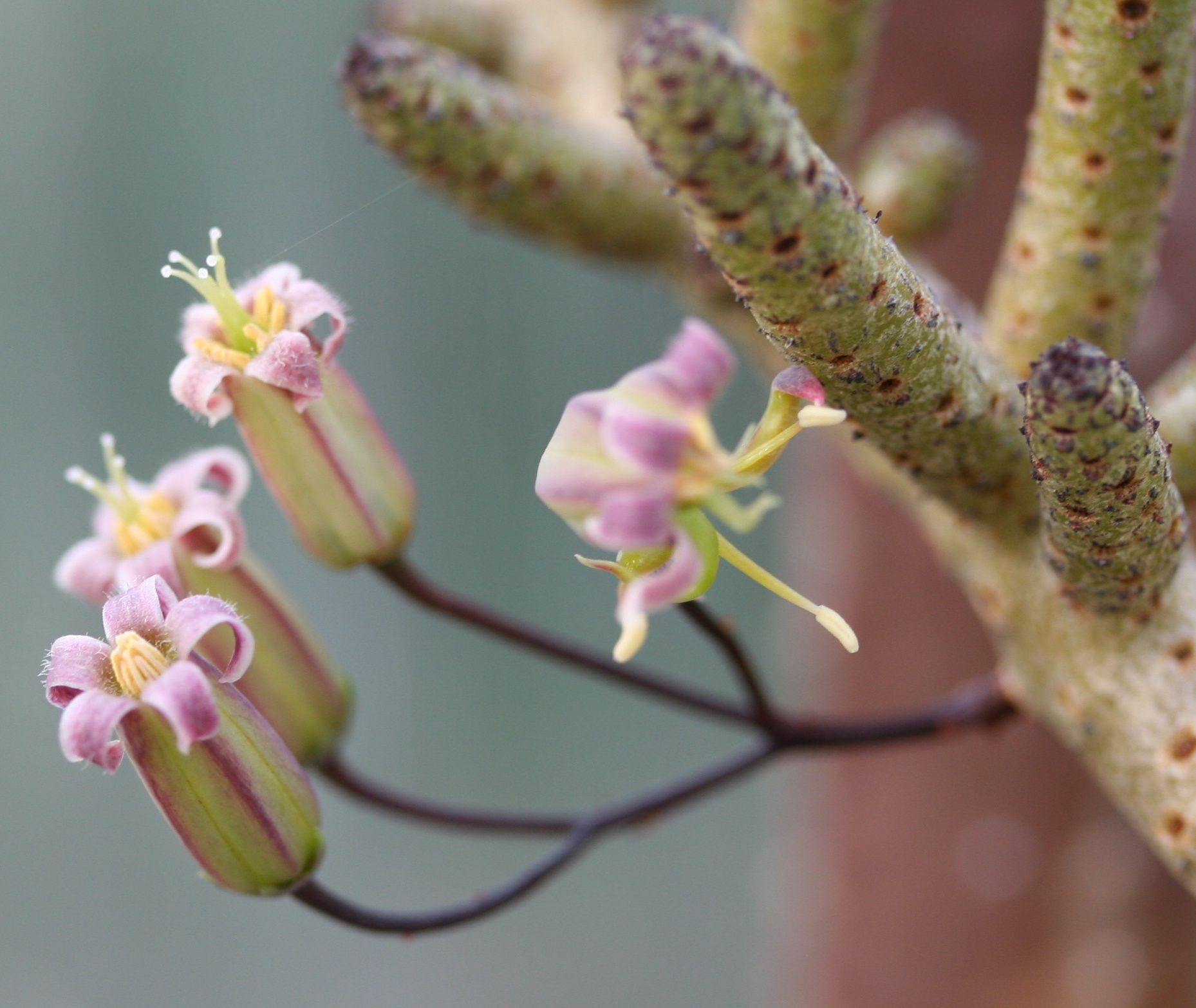 Tylecodon buchholzianus, Blütendetail